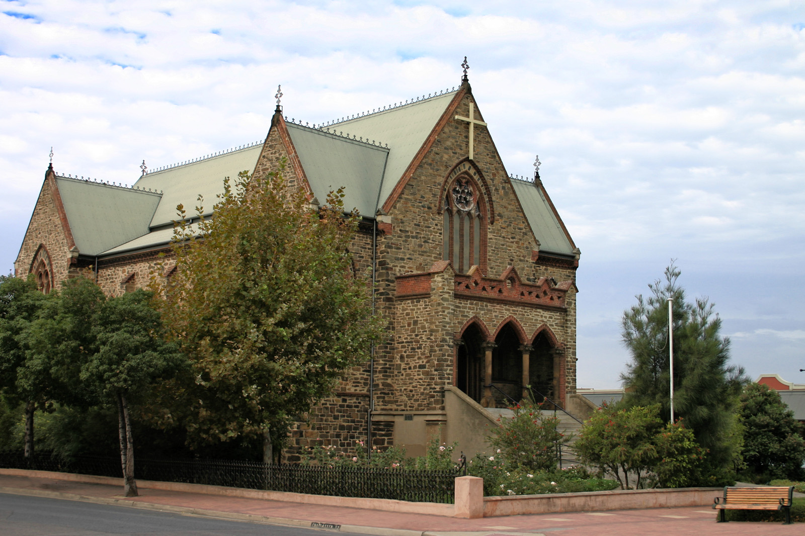 The Port Adelaide Uniting Church as it was in 2005, taken from Commercial Road, looking at the front and right side of the church.